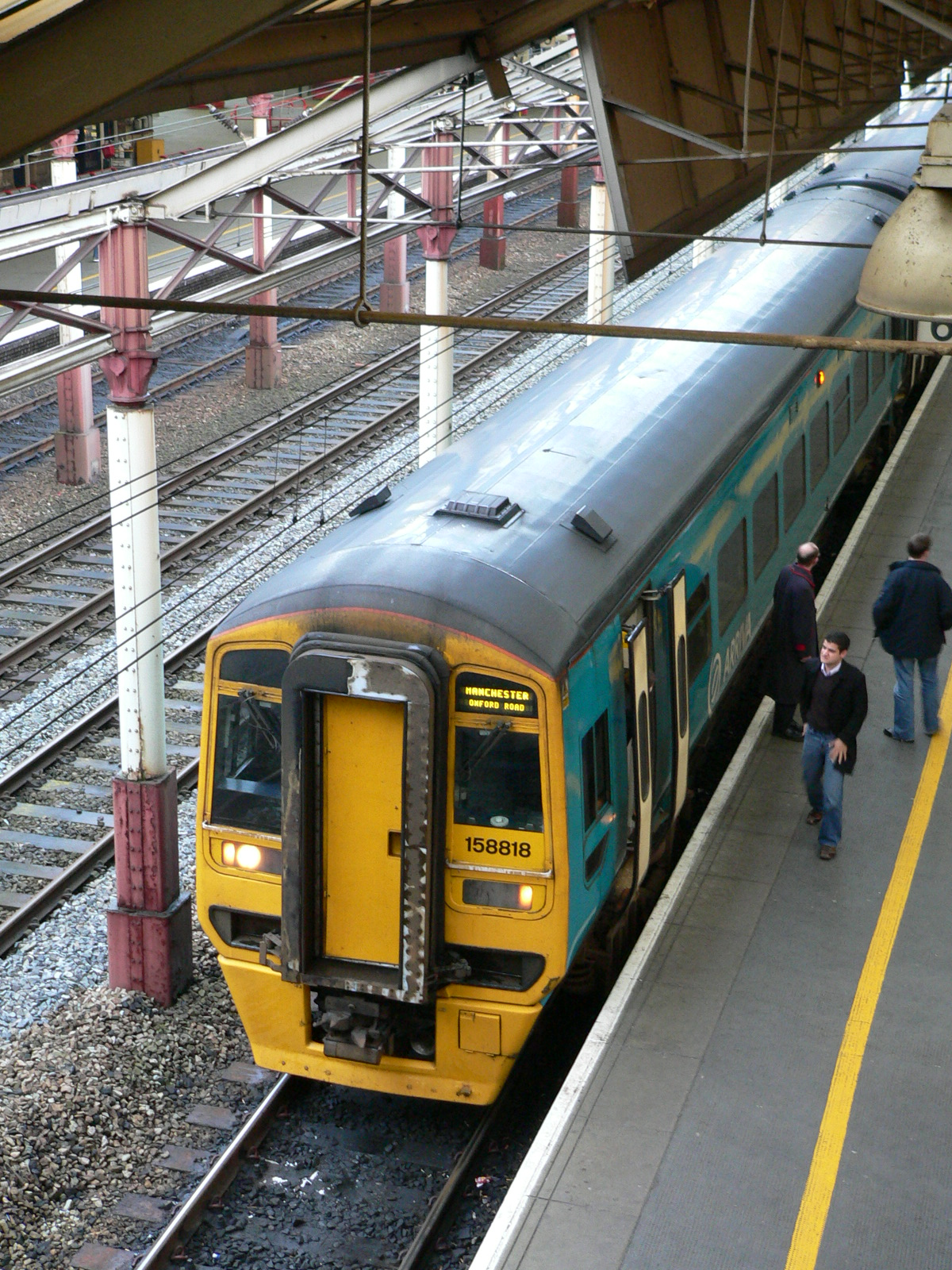 Arriva Trains Wales Class 158 DMU 158818 in Arriva's coroporate turquoise and white livery at platform 6 of Crewe railway station with a service to Manchester Oxford Road.